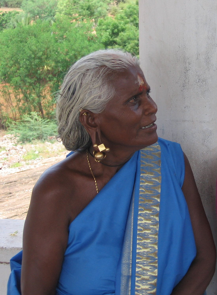 One of the very old and custom earrings (Pambadam/பாம்படம்) worn by Tamil women. It is now a rare sight because of its weight and affordability, since this earring will weigh more than 100 grams of gold.